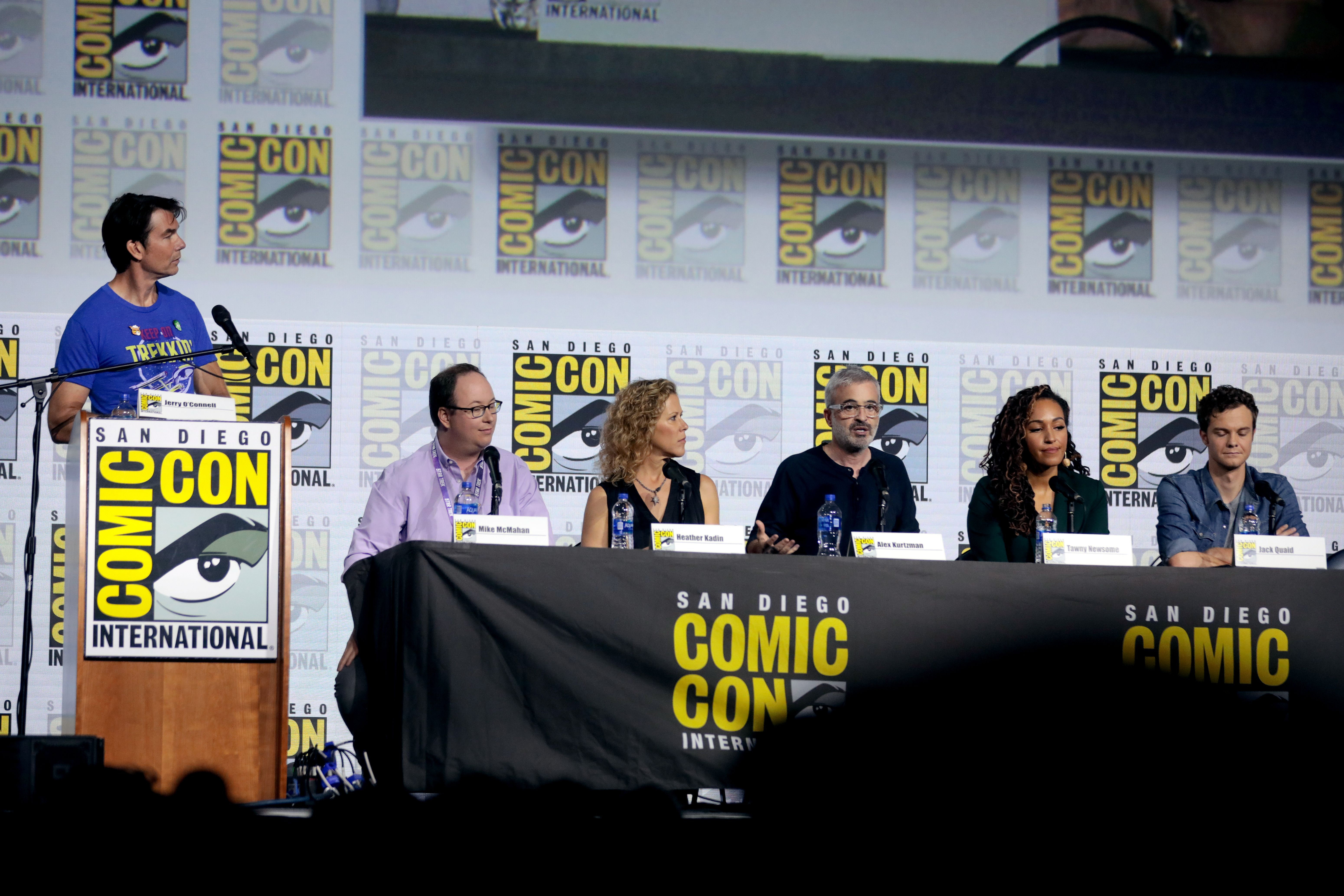 Jerry O'Connell, Mike McMahan, Heather Kadin, Alex Kurtzman, Tawny Newsome and Jack Quaid speaking at the 2019 San Diego Comic Con International, for "Star Trek: Lower Decks", at the San Diego Convention Center in San Diego, California.